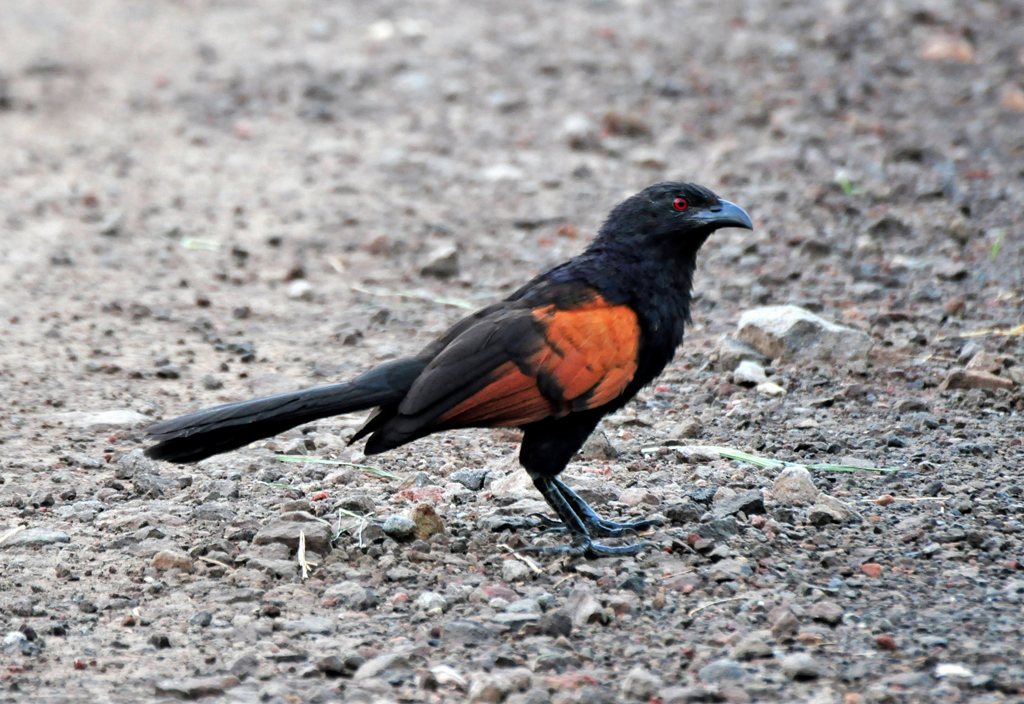 Sunda Coucal (Centropus nigrorufus) passing the street of mangrove. The bird suddenly appear when I was riding my motorcycle at dawn across the Mangrove Conservation Area (Surabaya, Indonesia).